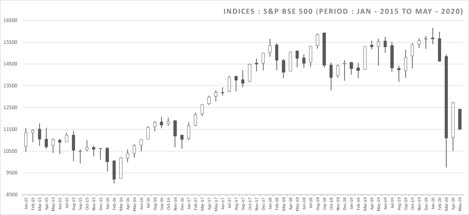 Impact of COVID-19 on Indian stock markets. Indices: S&P BSE 500 (Period Jan - 2015 to May - 2020)